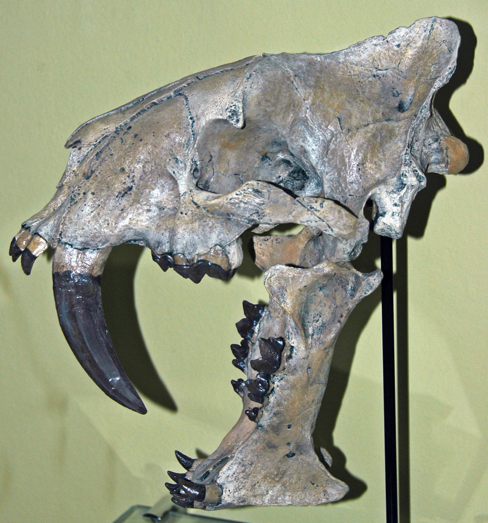 Hoplophoneus occidentalis (Leidy, 1866) - fossil false sabertooth cat skull from the Oligocene of South Dakota, USA. (public display, University of Wyoming Geological Museum, Laramie, Wyoming, USA) Classification: Animalia, Chordata, Vertebrata, Mammalia, Carnivora, Nimravidae or Felidae See info. at